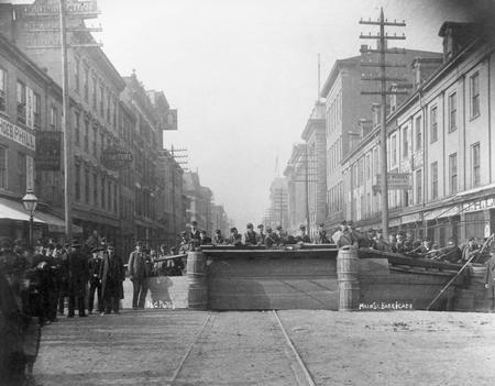 Ohio National Guard troops manning a barricade on Main Street in downtown Cincinnati, Ohio, March 1884. Troops were brought to bring an end to riots sparked by public outrage over the outcome of a murder trial.